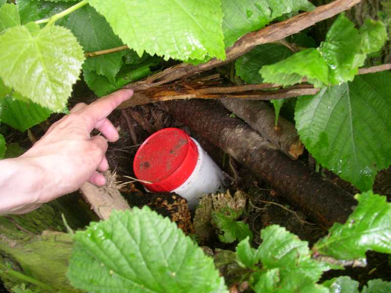 An example of container for geocaching game, Czech Republic.